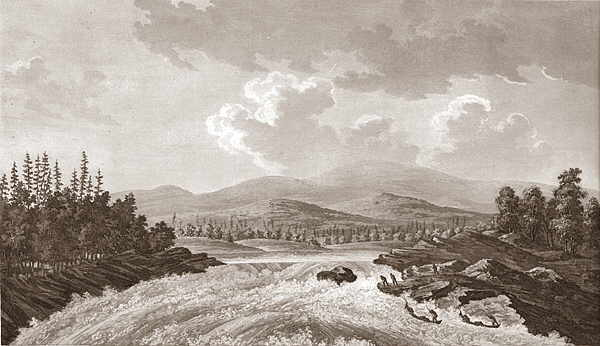 The rapids Kattilankoski in the river Tornionjoki